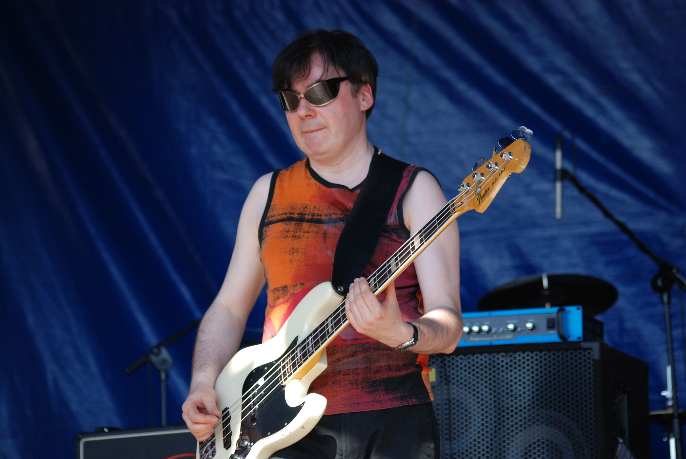 Made In Poland during Castle Party 2008